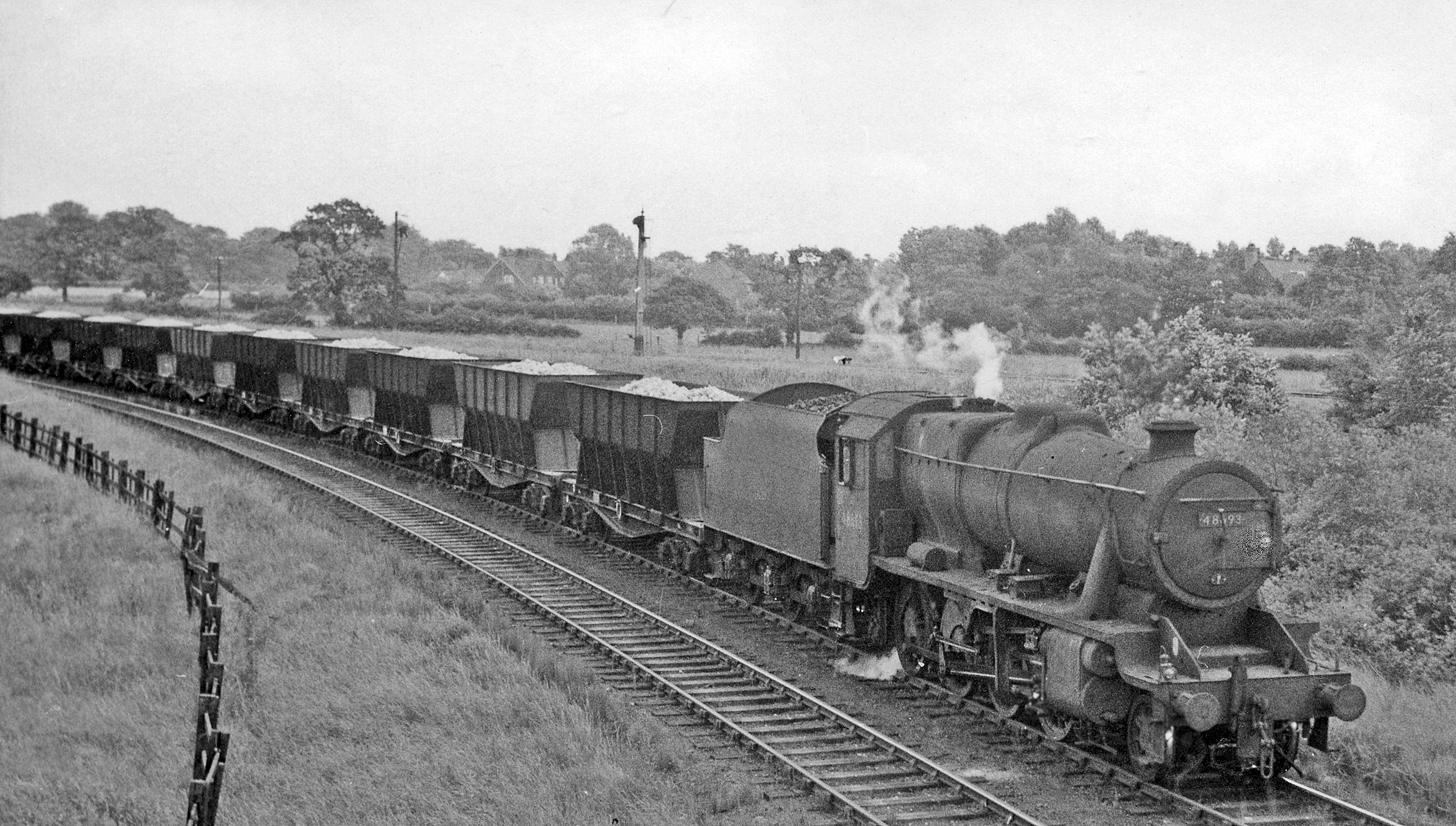 Limestone train from Tunstead to ICI Winnington, 1964. View SE from the Hodge Lane bridge over the loop from the CLC at Northwich to the Hartford Exchange Sidings on the West Coast Main Line, from which the train will be worked to the ICI Works. In those days about 10 of these limestone trains ran every weekday and even about 6 on Sundays - and there are workings even today. The locomotive here is Stanier 8F 2-8-0 No. 48693 (built 1944 on the SR, withdrawn 4/67).